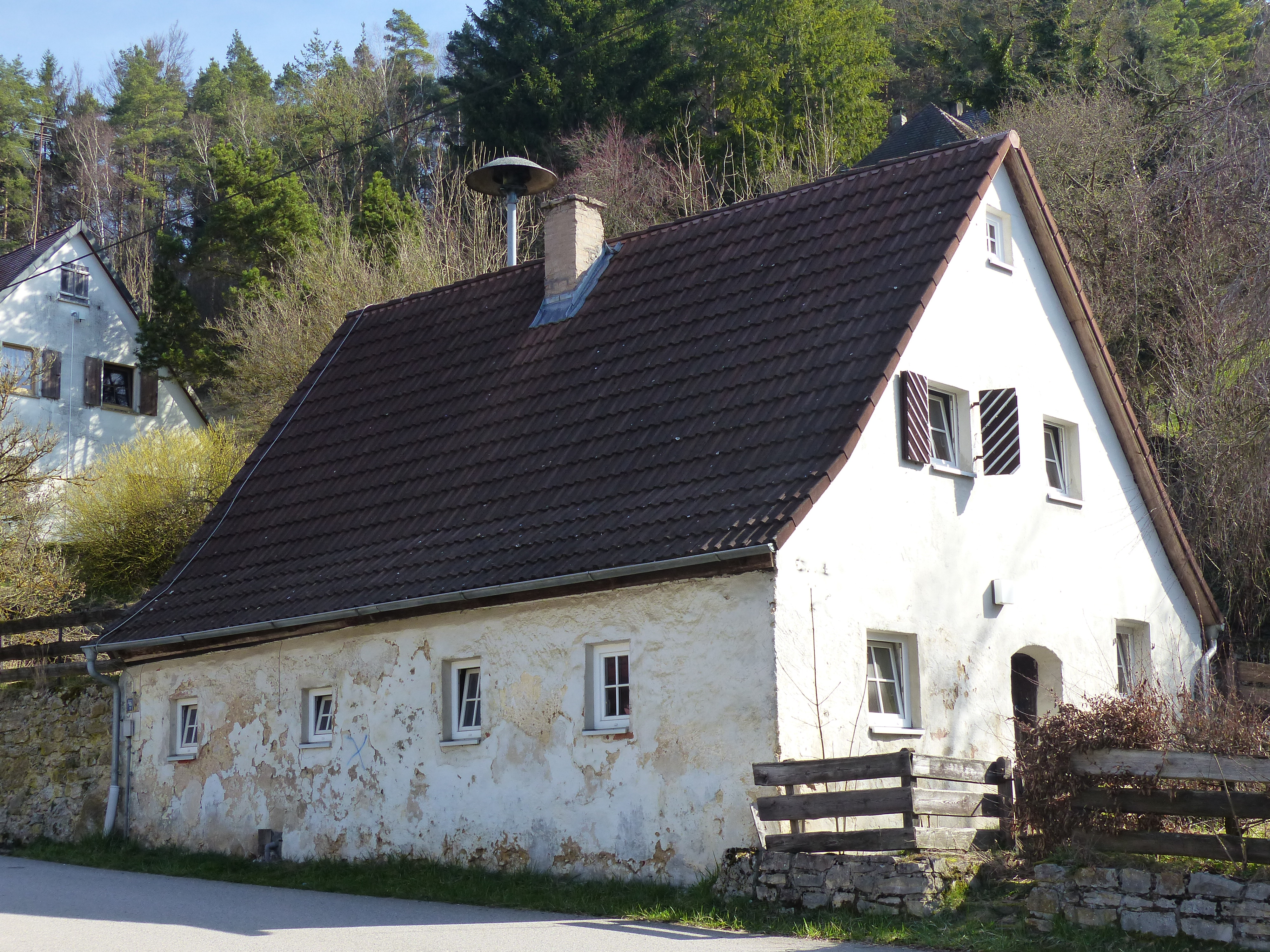 A former shepherd's house in the village Unterklausen, a part of the municipality of Hirschbach